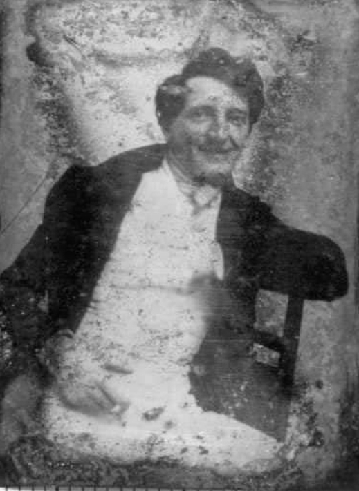 Egressy Gábor dagerrotípiája önmagáról. Visszaemlékezések szerint Egressy Gábor színész, aki fotóamatőrködött többek között lefényképezte színésztársát, Petőfit is.